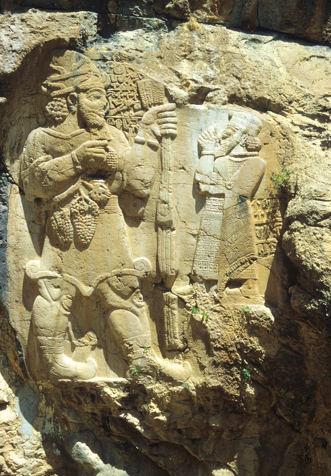 Hethitisches Relief bei Ivriz, Türkei